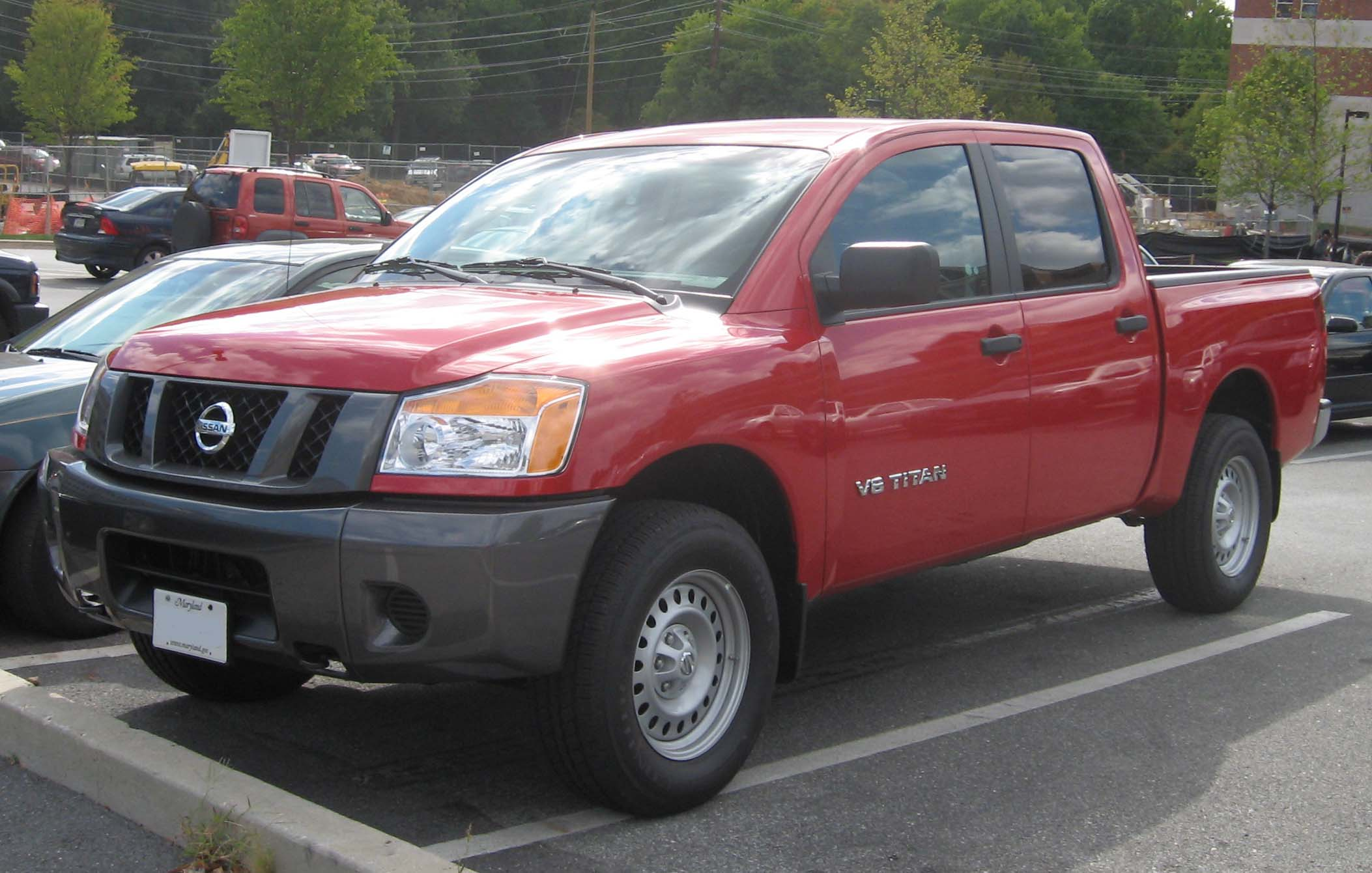 2008 Nissan Titan photographed in College Park, Maryland, USA.